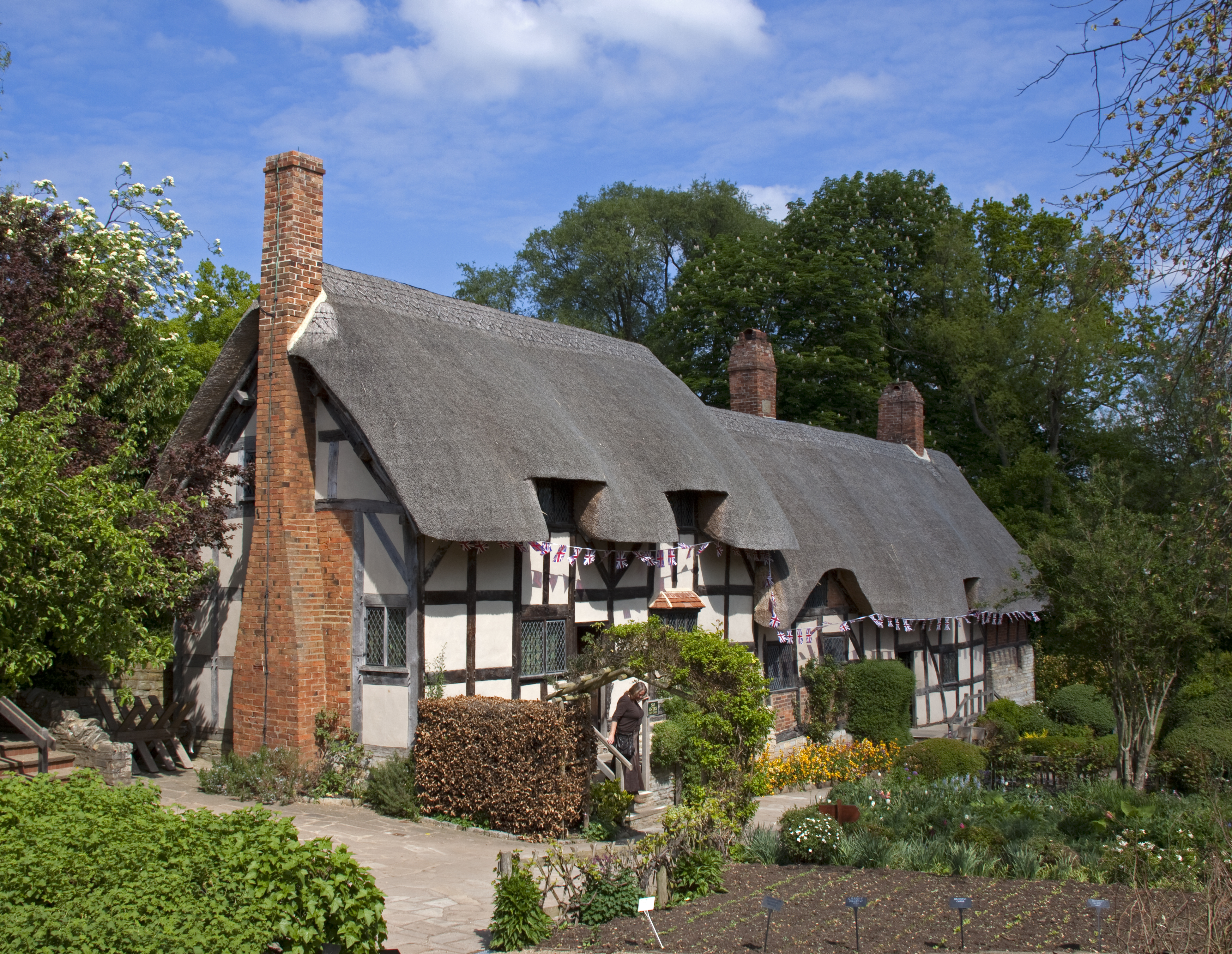 Listed Building Site